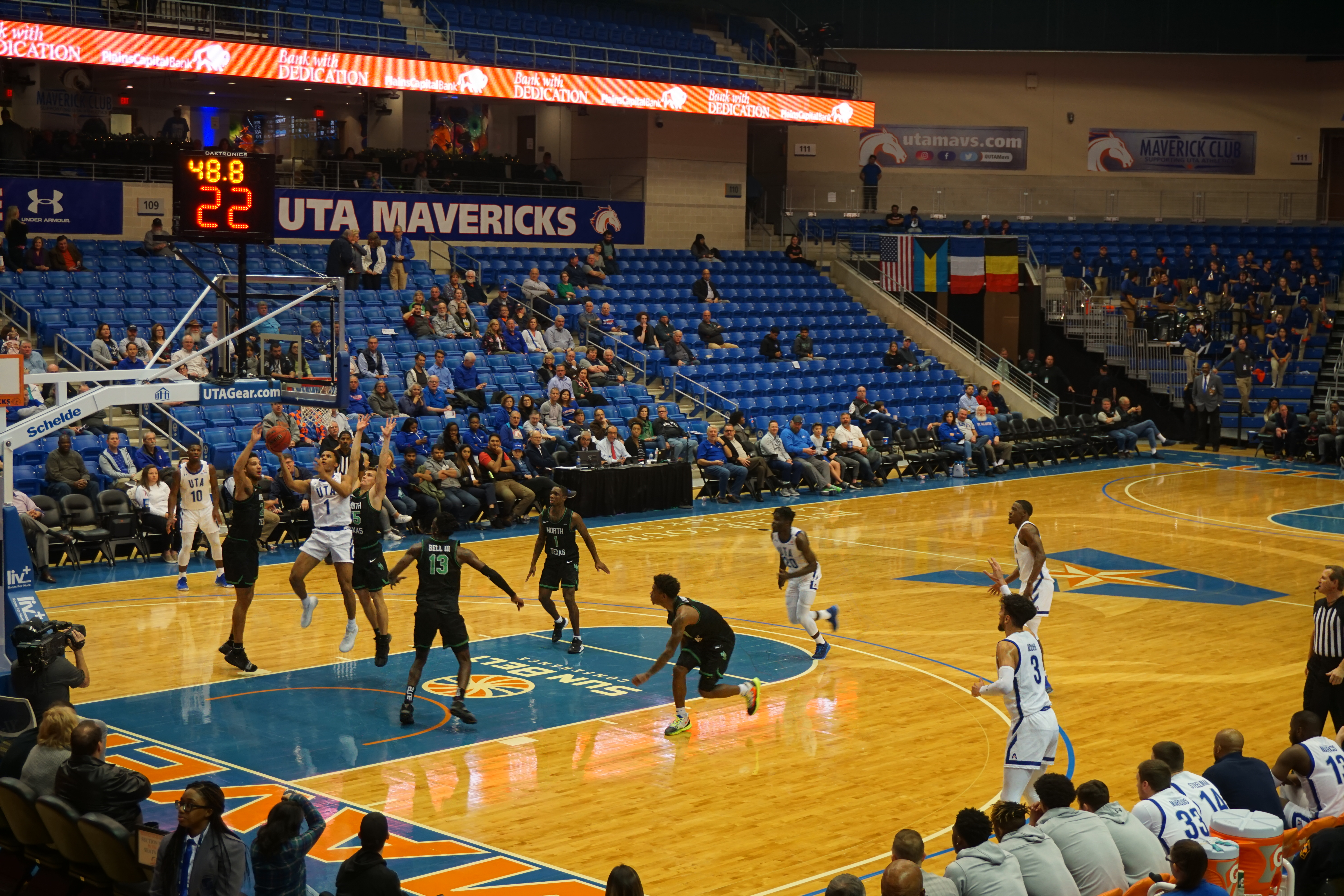 In-game action during the North Texas Mean Green vs. UT Arlington Mavericks men's basketball game at College Park Center in Arlington, Texas (United States). North Texas won 77–66.